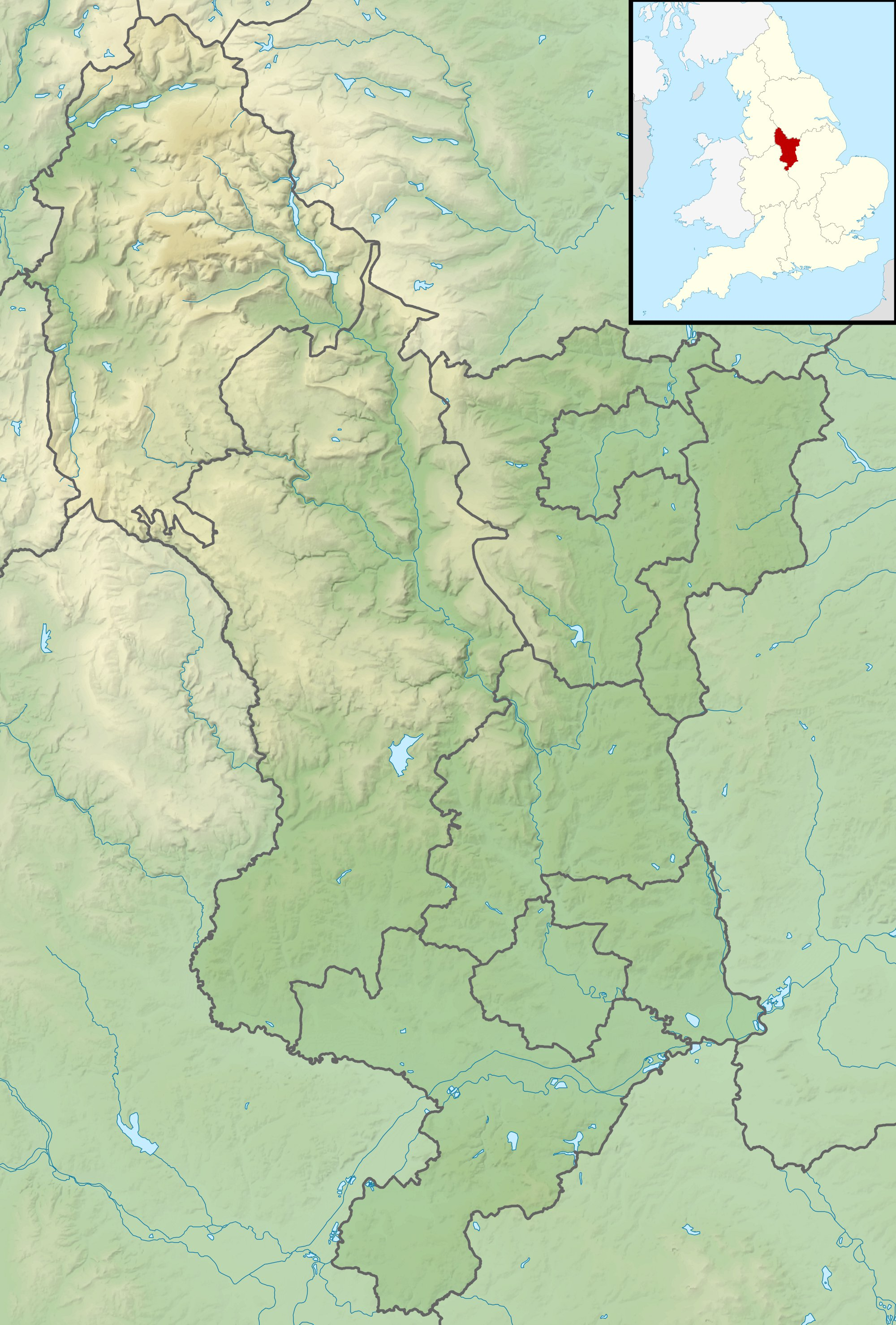 Relief map of Derbyshire, UK. Equirectangular map projection on WGS 84 datum, with N/S stretched 165% Geographic limits: West: 2.06W East: 1.10W North: 53.55N South: 52.69N